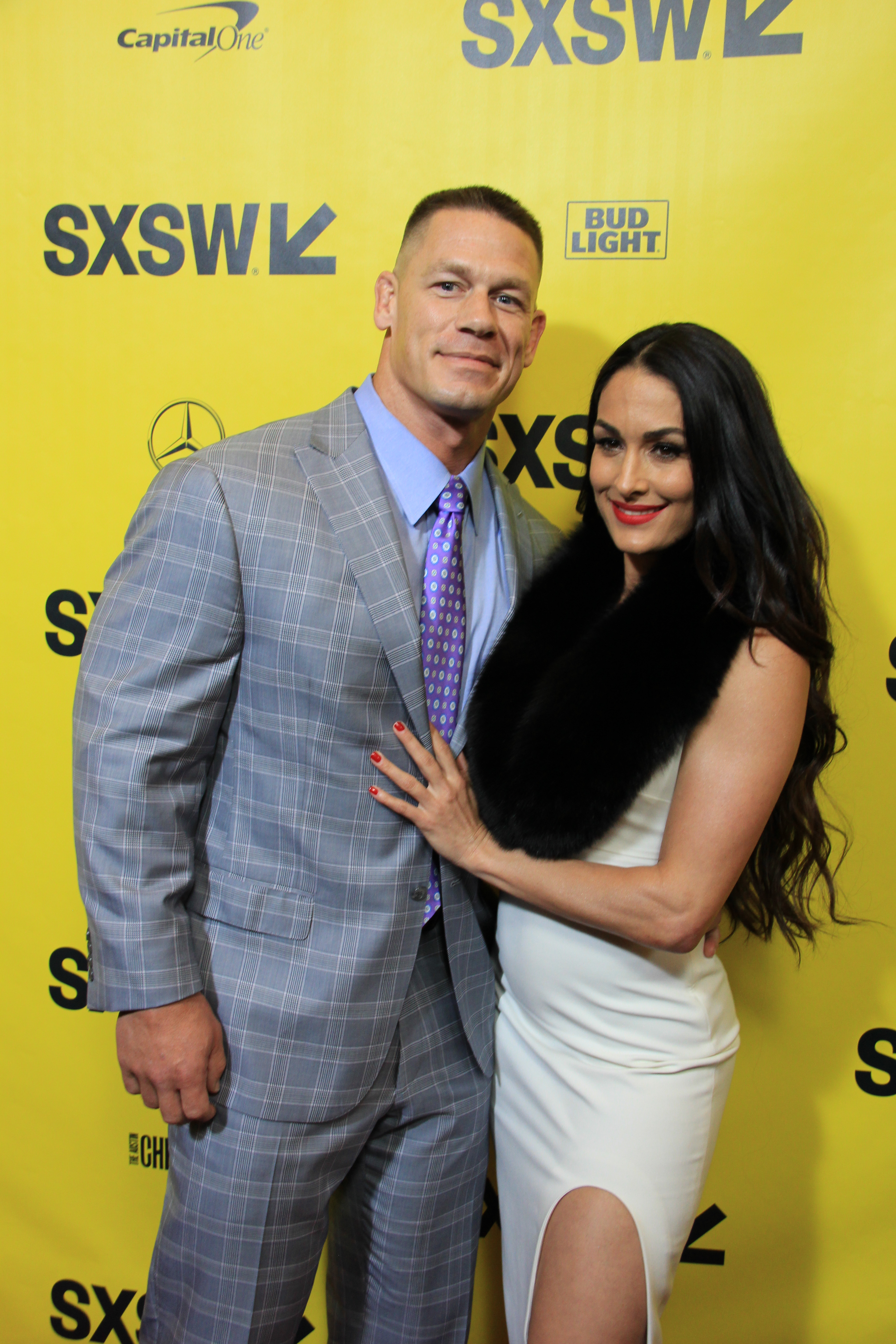 John Cena and Nikki Bella at SXSW Red Carpet premiere of BLOCKERS